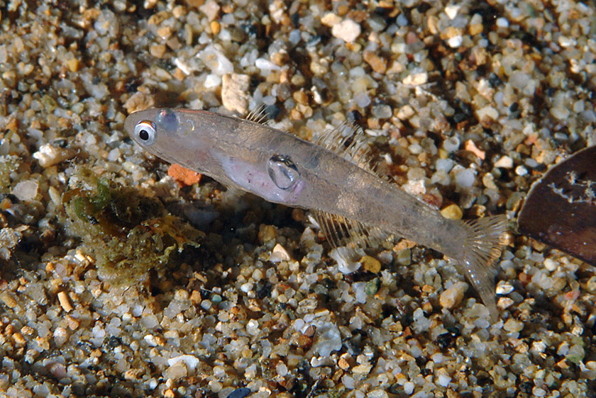 Aphya minuta photographed on Tuscany coast (Italy). Photo by Stefano guerrieri